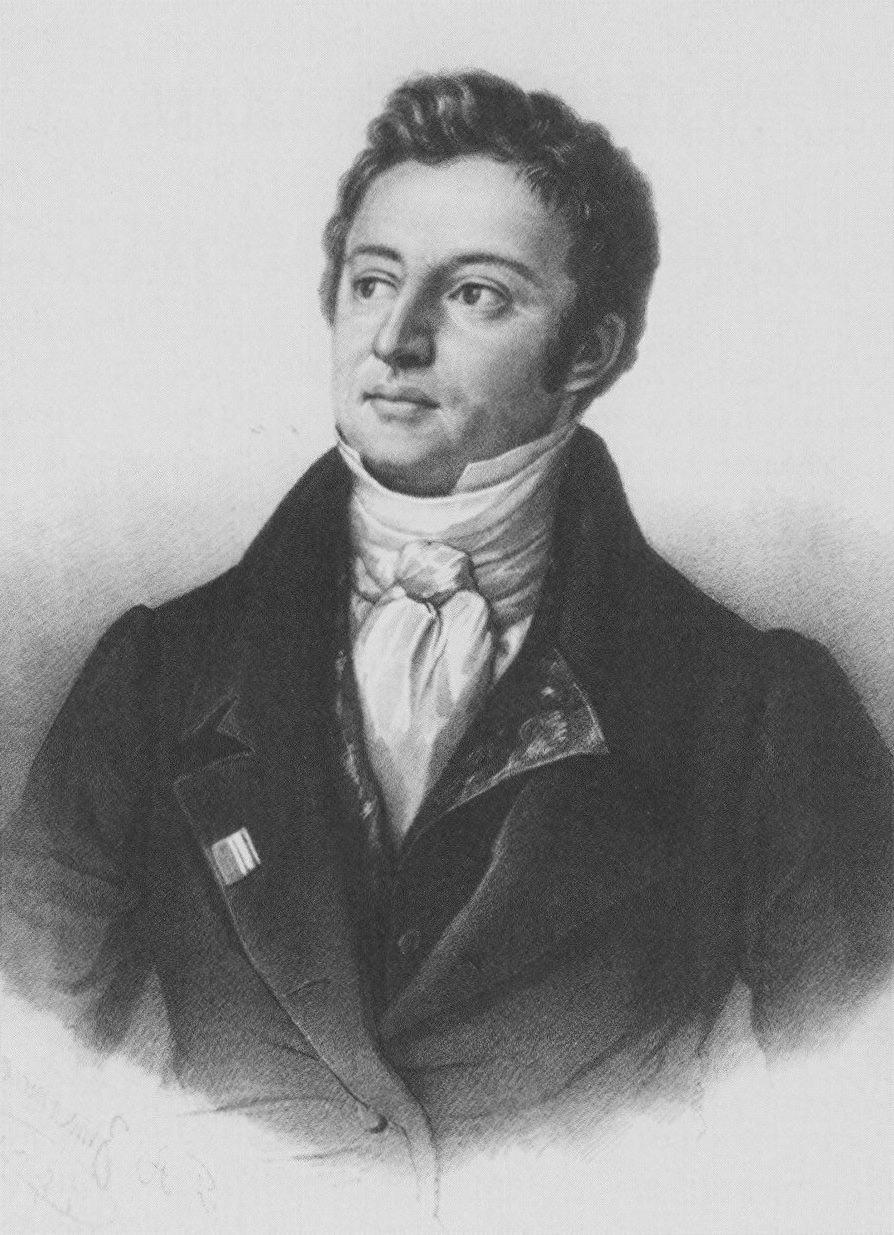 Rudolph Brandes (1795-1842), pharmacist and naturalist; portrait by F. A. Zimmermann, 1838